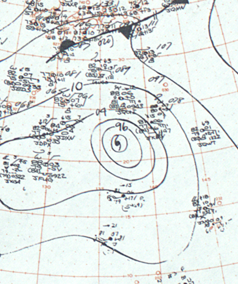 Surface weather analysis of Typhoon Wilda moving towards Japan on 21 September 1964.